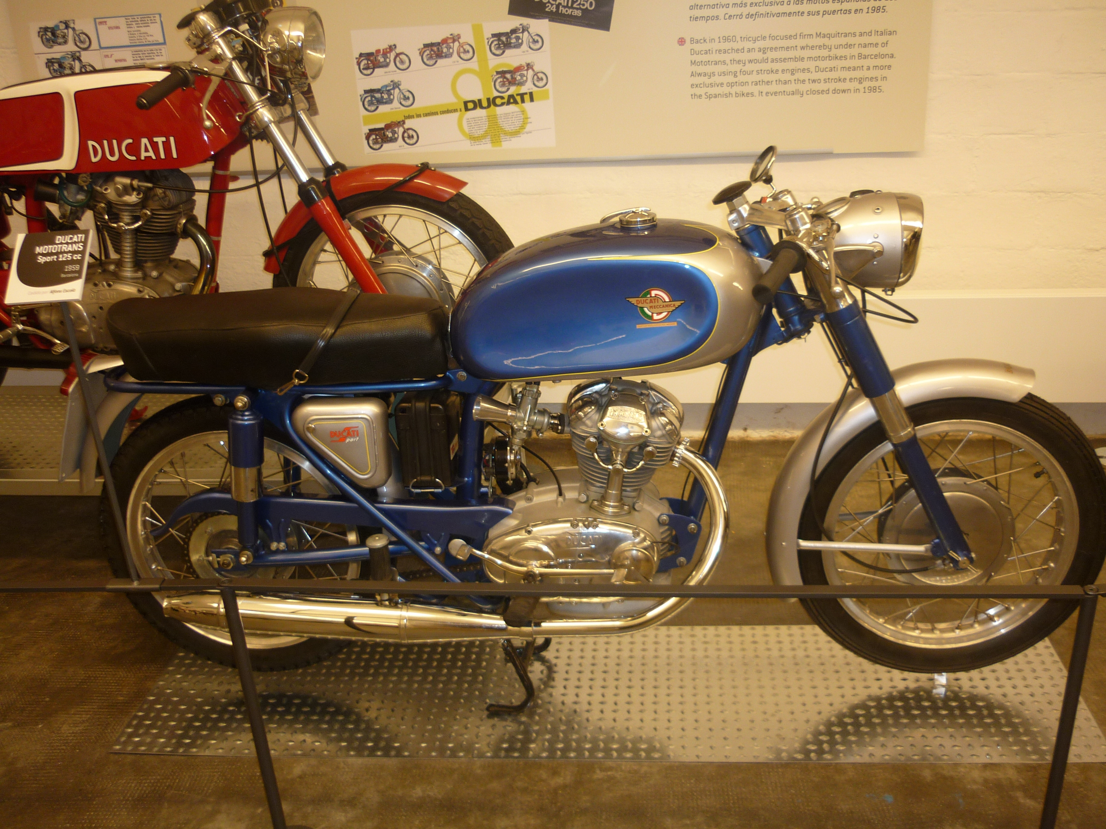 Ducati Mototrans Sport 125cc (1959). Museu de la Moto de Barcelona (Catalonia).